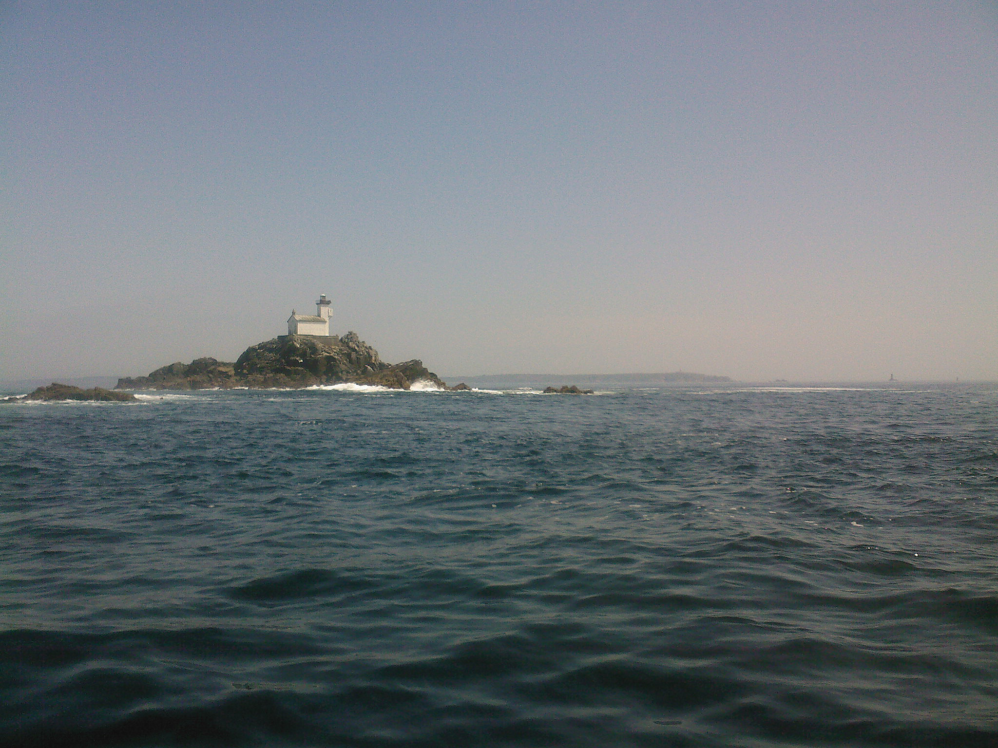 Tevennec Island and Lighthouse, located in the Raz de Sein, Finistère, France.